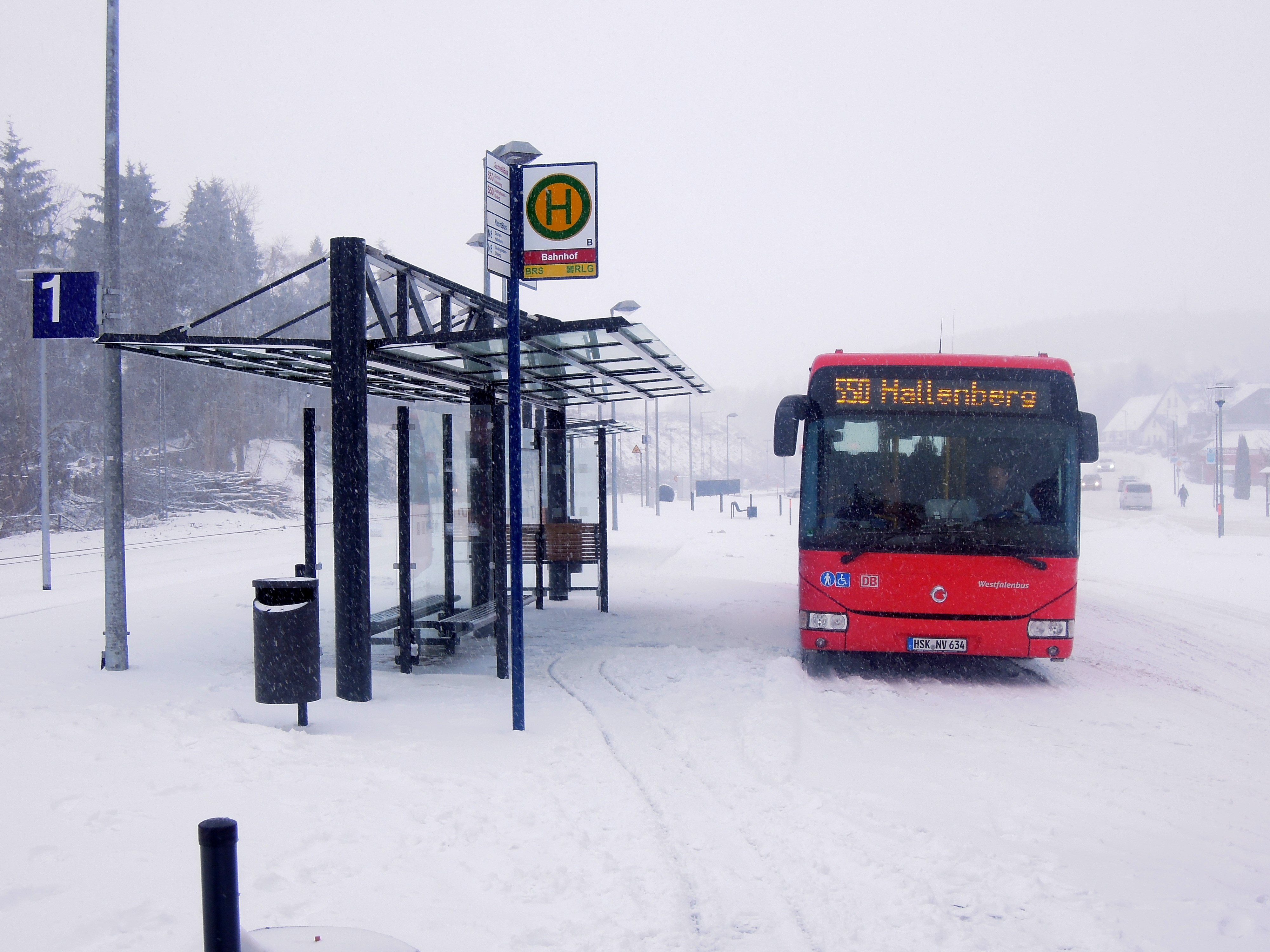 A bus of Deutsche Bahn in Winterberg at the train station.